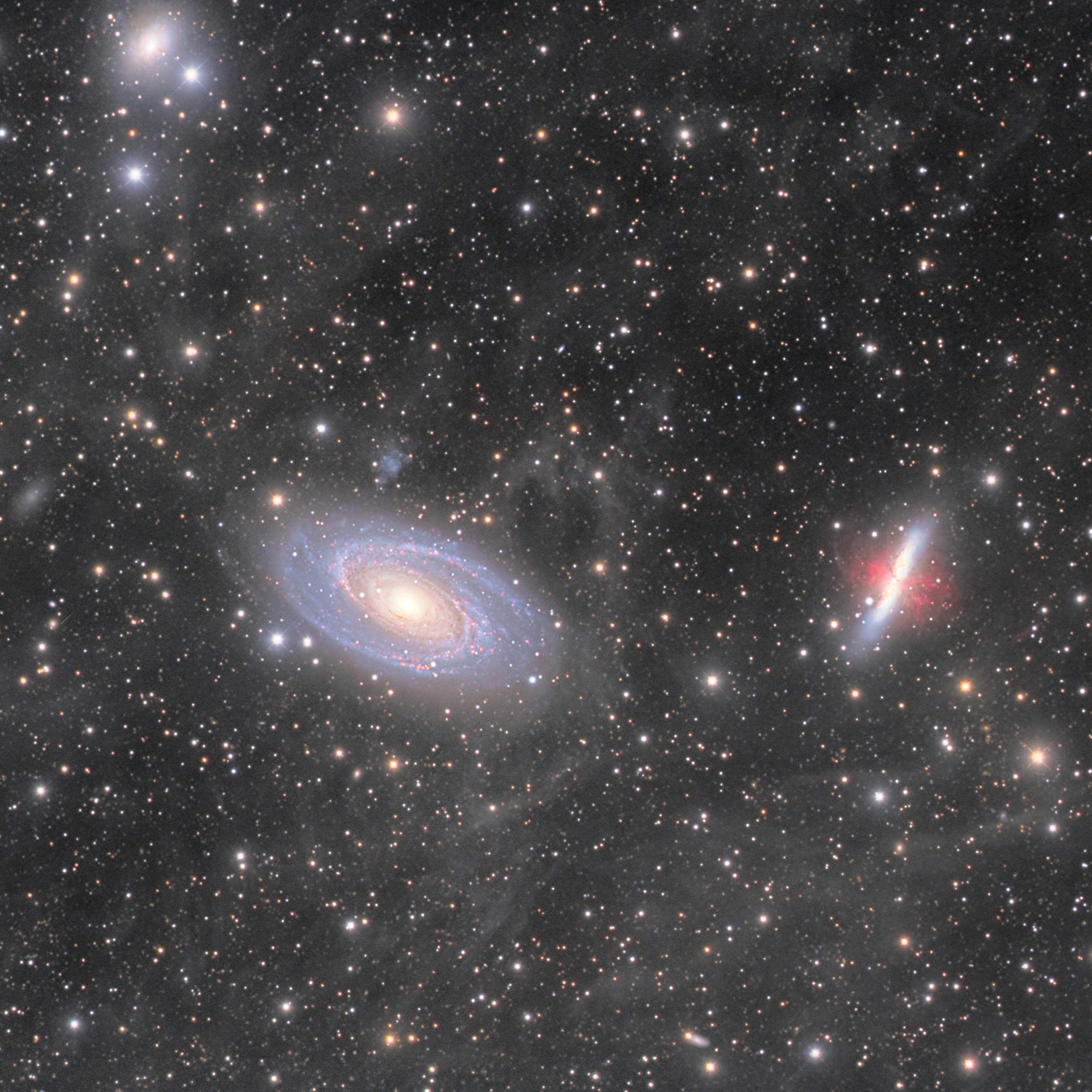 Messier 81 - 82 and Integrated Flux Nebula Credits: Leonardo Ciuffolotti, Andrea Pistocchini, Giuseppe Nicosia, Alessandro Falesiedi, Tim Stone, Giuseppe Donatiello . J2000 09h 55m 33.2s +69° 3′ 55″ Messier 81 (NGC 3031 or Bode's Galaxy) is a spiral galaxy at 12 million light-years in Ursa Major and it is the largest galaxy in the M81 Group, a group of 34 galaxies . M81 was discovered by Johann Elert Bode in 1774. RA: 09h 55m 52.2s Dec: +69° 40′ 47″ Messier 82 (NGC 3034) is a starburst galaxy at 12 million light-years.